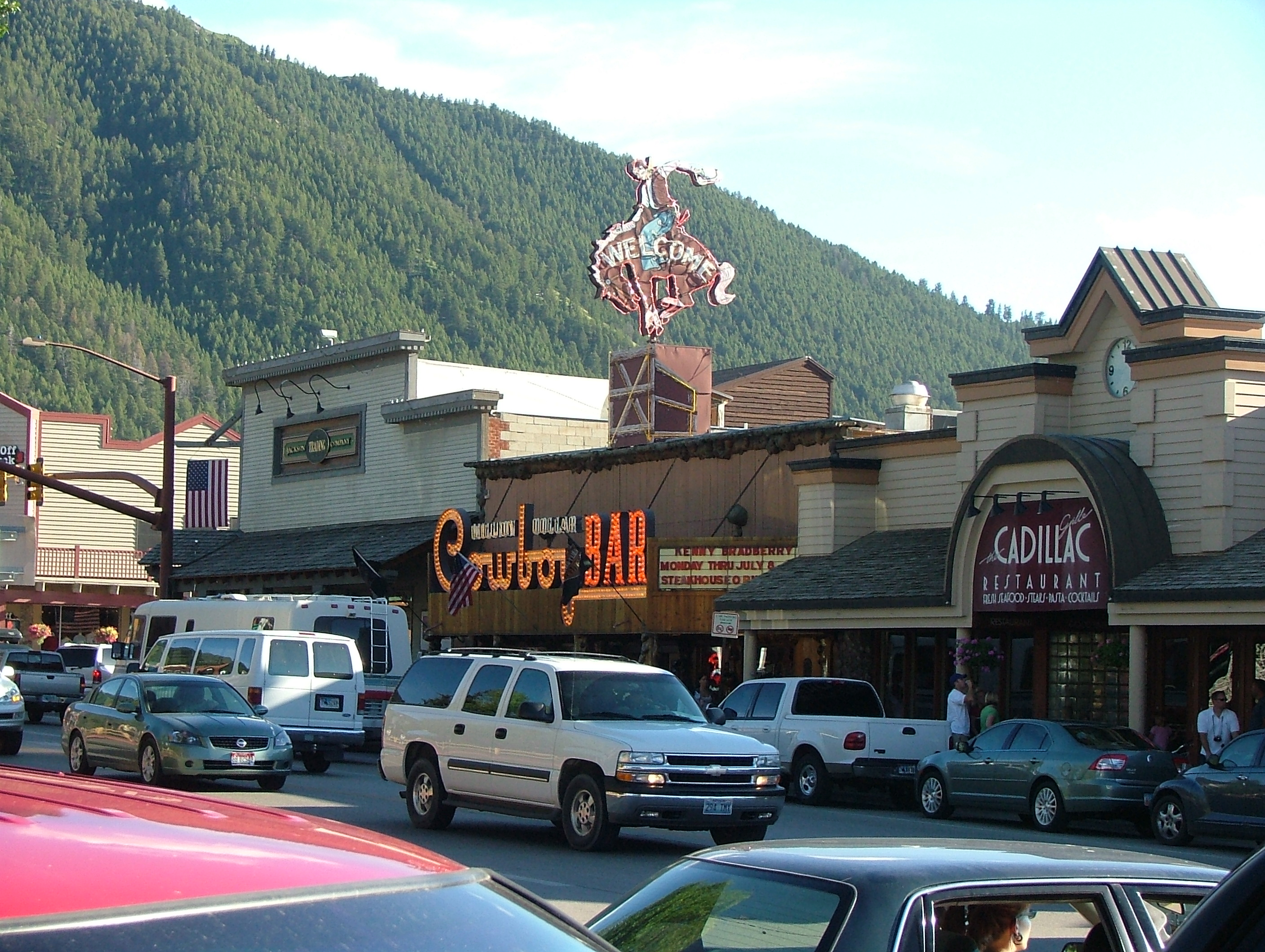 Cache Street, Jackson, Wyoming. Famous Million Dollar Cowboy Bar and Cadillac Restaurant.